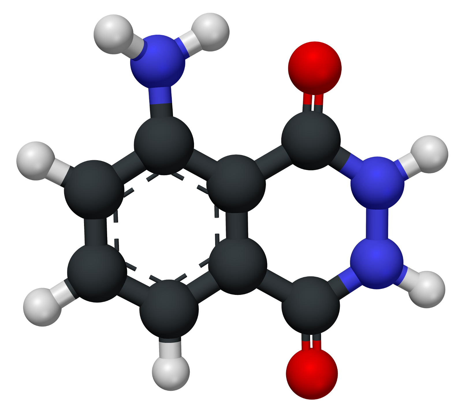 Ball-and-stick model of a luminol molecule. Created using Avogadro, Discovery Studio and GIMP. This structure is based on crystallographic information. Source: Guzei, I., Kim, M. and West, R. (2013). Single-crystal X-ray studies of five alkali metal salts of luminol. Journal of Coordination Chemistry, 66(21), pp.3722-3739.